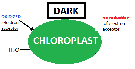 A diagram of the hill reaction taking place in the dark which shows there are no reduced electron acceptors